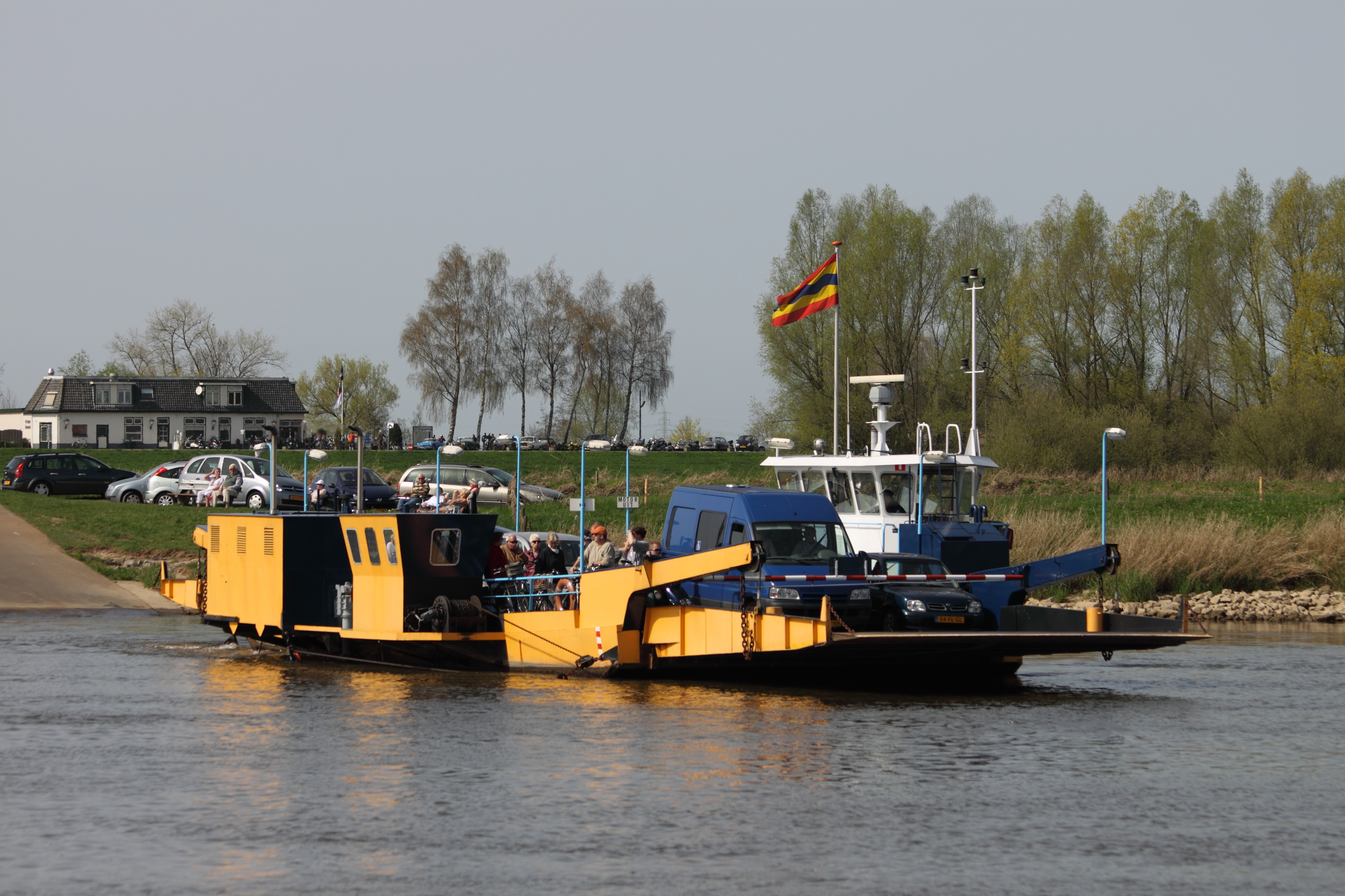 Olsterveer